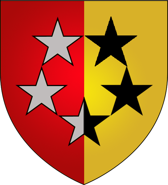 Coat of arms of the municipality of Consdorf, Luxembourg